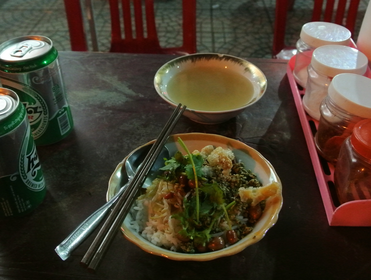 Com Hen, Vietnamese basket clam rice with soup